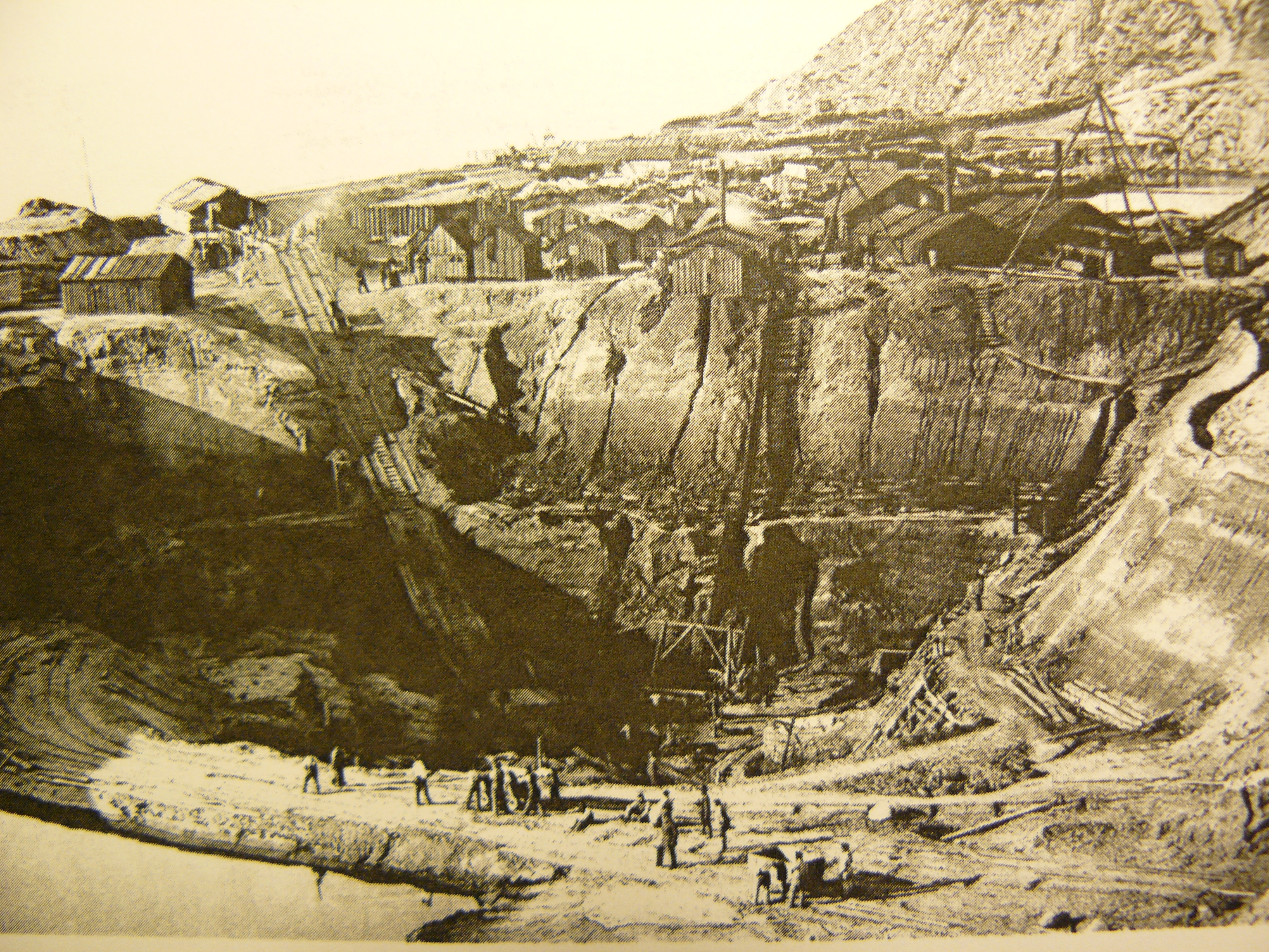 Excavation of amber; open pit near Palmnicken, East Prussia, 1874